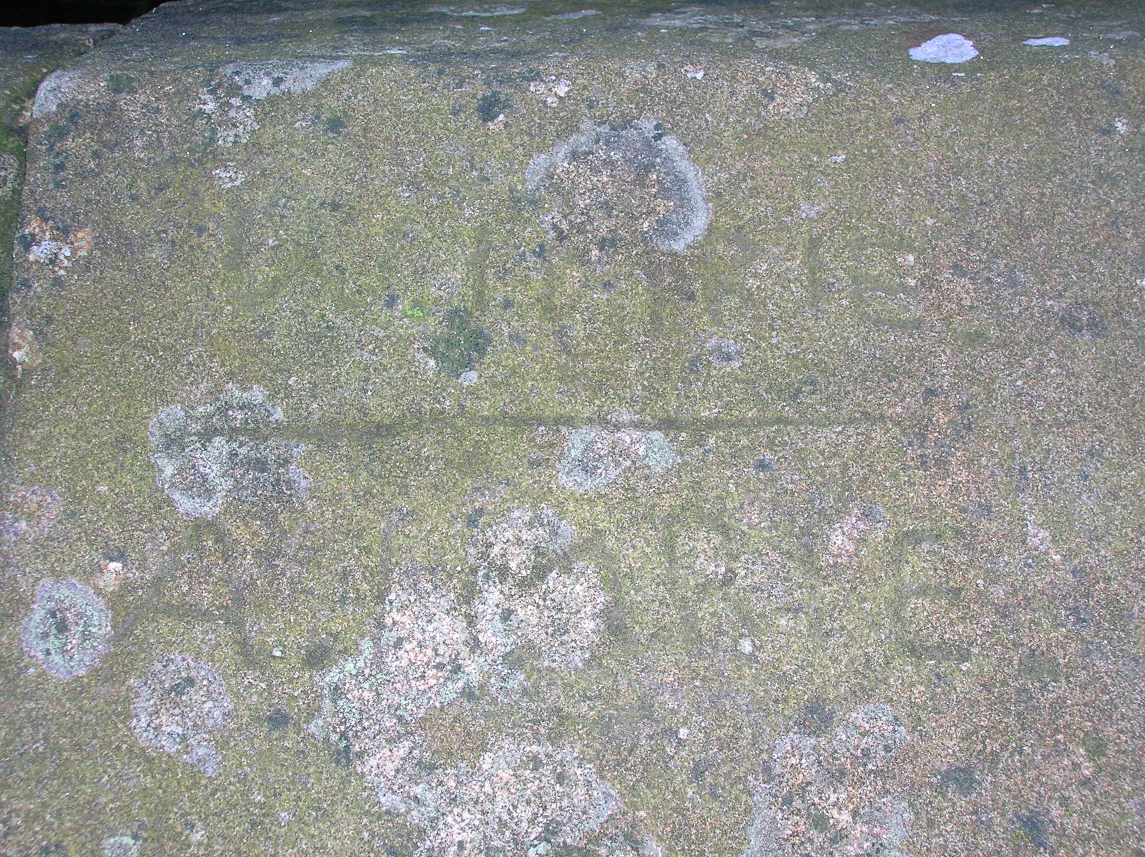 Carvings on the parapet of the bridge over the old Cunninghamhead Railway Station, probably done by pupils or locals from the local primary school at Crossroads